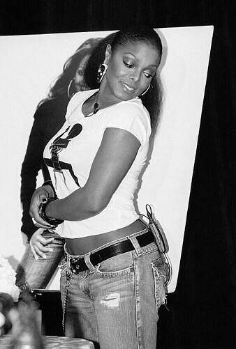 Janet checking her mike...2006 press conference.